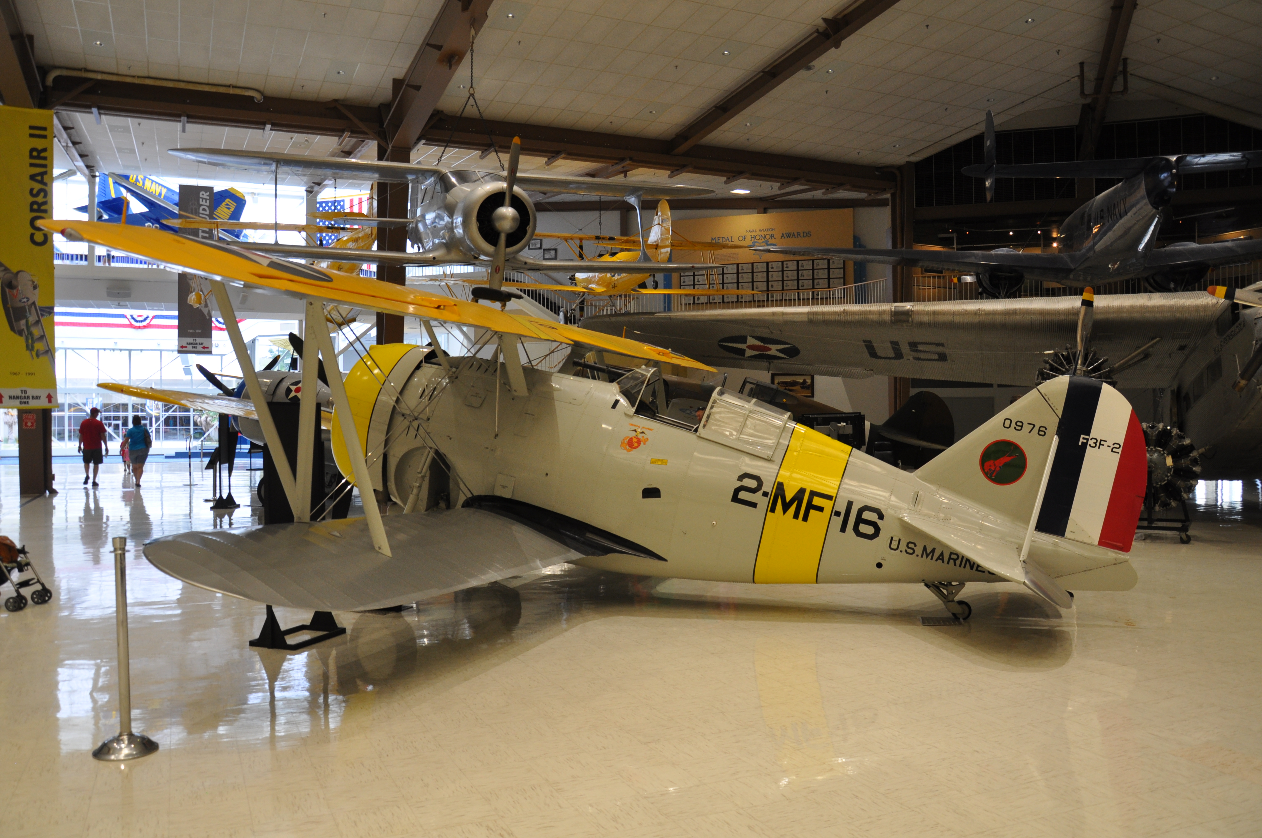 Grumman F3F-2, BuNo 0976, ditched by 1st Lt. Robert Galer, 29 August 1940, after engine failure due to fuel pump problems off California, discovered 1988, retrieved 1991 and restored by the San Diego Aerospace Museum, on display at the National Museum of Naval Aviation, NAS Pensacola, FL. Photographed 28 June 2014.